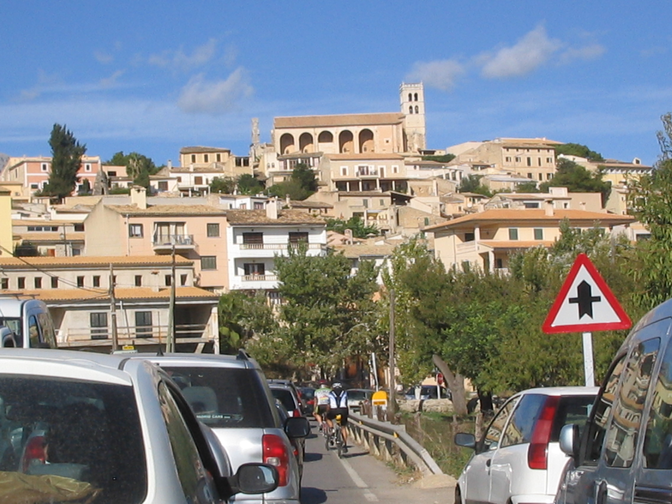 A spanish village called Selva in mallorca.